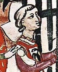 Enzo of Sardinia